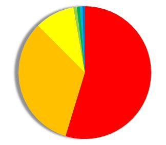 Expressed as a pie chart in the Osaka gubernatorial election in 2011, the number of votes for each candidate. explanatory notes ■ - Ichiro Matsui ■ - Kaoru Kurata ■ - Shoji Umeda ■ - Shu Kishida ■ - Masaaki Takahashi ■ - Masaru Nakamura ■ - Mac Akasaka